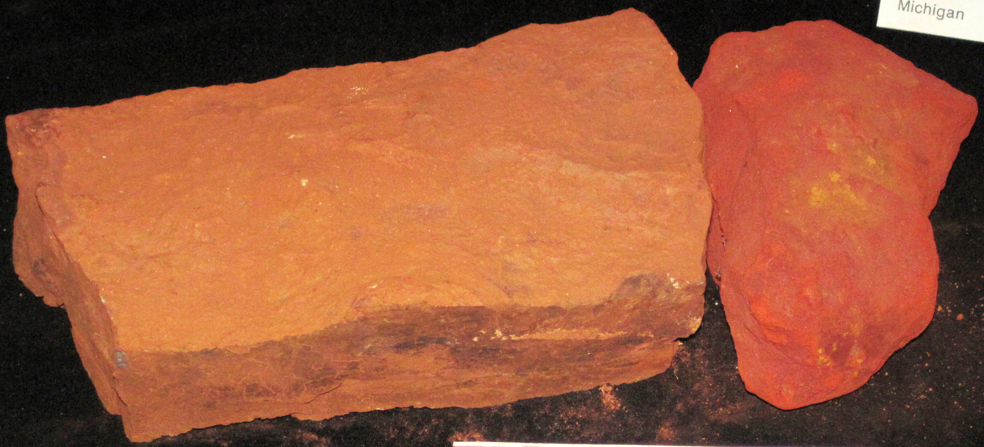 Earthy hematite (iron ore) from the Precambrian of Minnesota, USA. (public display, Minnesota Discovery Center, Chisholm, Minnesota, USA) Banded iron formations, or BIFs, are unusual, dense, marine sedimentary rocks consisting of alternating layers of iron-rich oxides and iron-rich silicates. Most BIFs are Proterozoic in age, although some are Late Archean. They do not form in today's oceans - they're an example of an “extinct” rock type. Many specific varieties of iron formation are known. The most attractive type is jaspilite, which is a reddish & silvery gray banded rock consisting of hematite, red chert (“jasper”), and specular hematite or magnetite. Most BIFs have been subjected to one or more orogenic (mountain-building) events, resulting in folding and/or metamorphism. BIFs are known from around the world, but some of the most famous & extensive deposits are found in the vicinity of North America’s Lake Superior Basin. Many BIFs have economic concentrations of iron and are mined as iron ores. The rocks shown above are high-grade iron ores from an iron mine in Minnesota's Mesabi Iron Range. Mines in the area target rocks of the Biwabik Iron-Formation, which is dominated by taconite and cherty taconite. Early mining operations exploited high-grade iron ore in the form of earthy hematite and limonite in the weathered zone in the surface and near-surface portions of the Biwabik Iron-Formation. The weathered zone formed as groundwater leached out silica from taconite rocks, resulting in a deposit rich in iron oxide and low in quartz. The Mesabi Iron Range's weathered zone iron ores are essentially mined out. Modern iron mines target the lower-grade taconite as iron ore. Stratigraphy: weathered zone in the Biwabik Iron-Formation, Paleoproterozoic, ~1.878 Ga Locality: Whiteside Mine at the town of Buhl, Mesabi Iron Range, western St. Louis County, northeastern Minnesota, USA